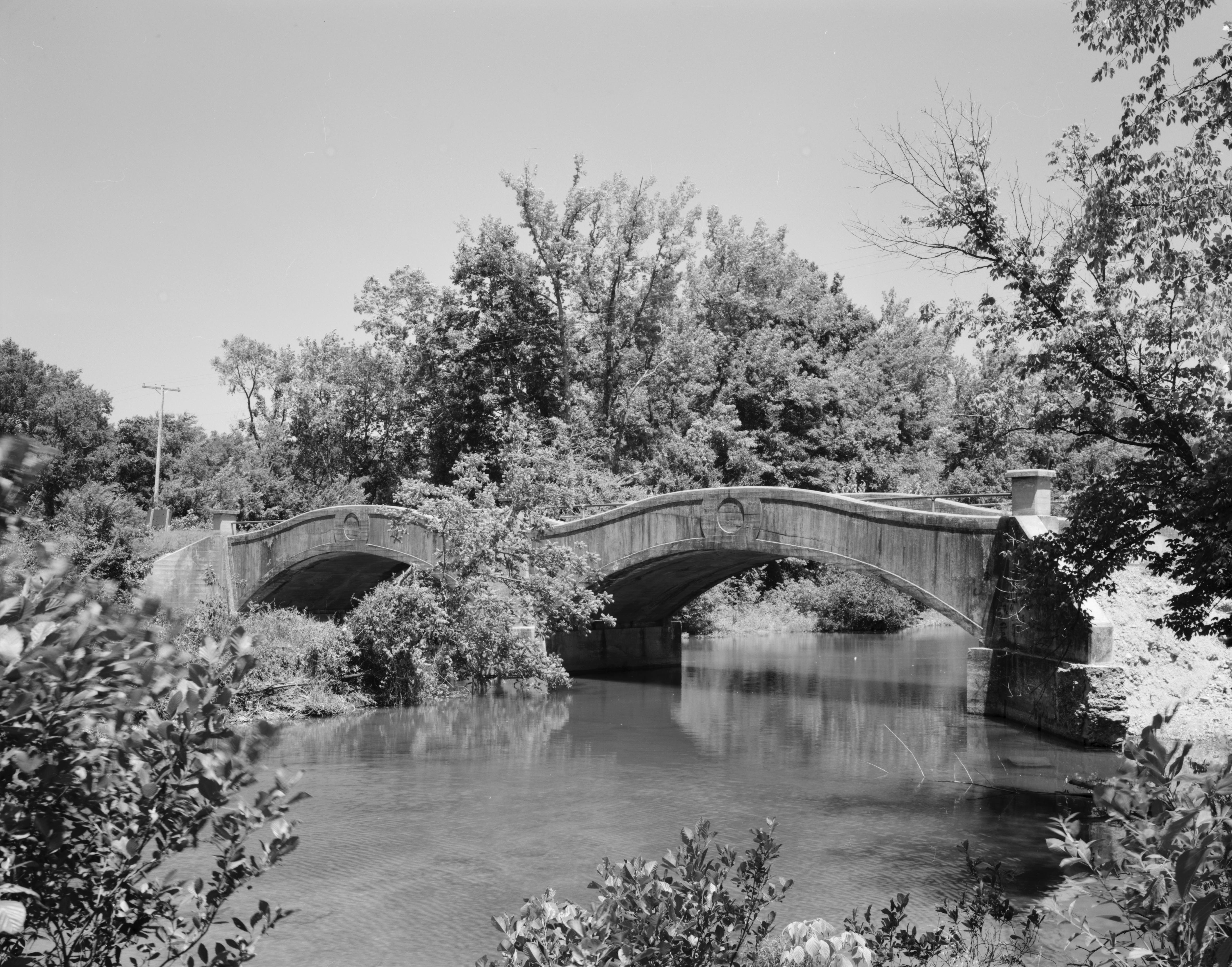 Eastern side of the South Fork Bridge, which spans the South Fork of the Saline River at Fountain Lake in Garland County, Arkansas, United States. Built in 1928, this closed spandrel stone deck arch bridge is listed on the National Register of Historic Places.